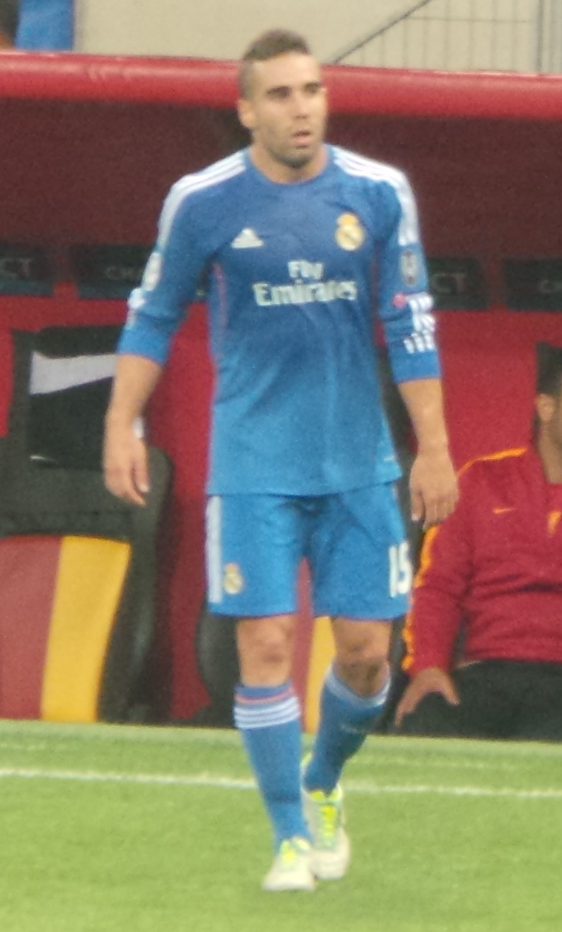 Carvajal with RM